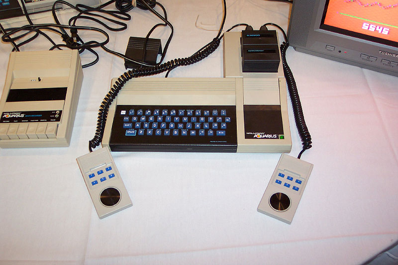 Taken from my personal collection of photos of my displays from the 2008 Midwest Gaming Classic. This photo is free to use as long as credits to Martin Goldberg and/or Electronic Entertainment Museum (E2M), are maintained.